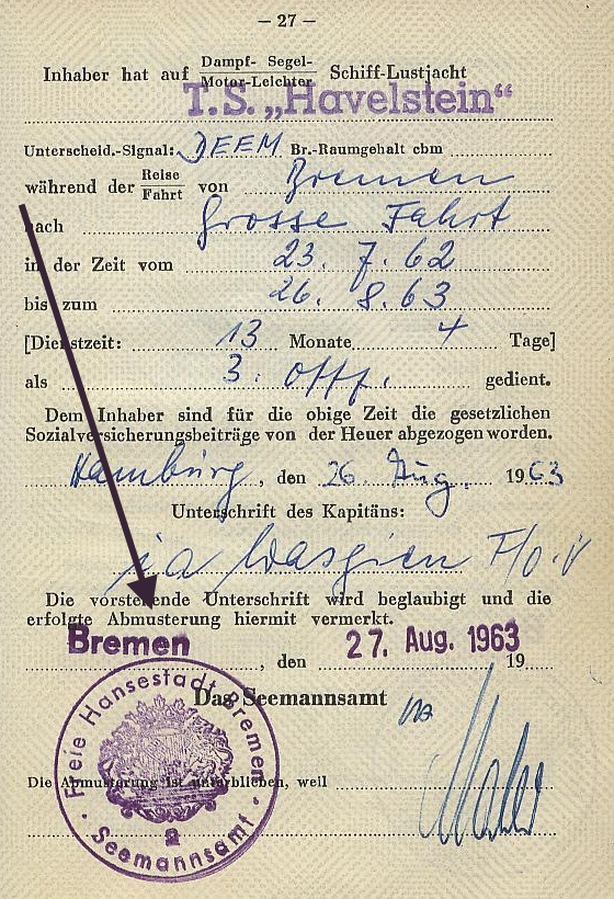 Entry in a German seaman's book - Matching of TS Havelstein, NDL in August 1963